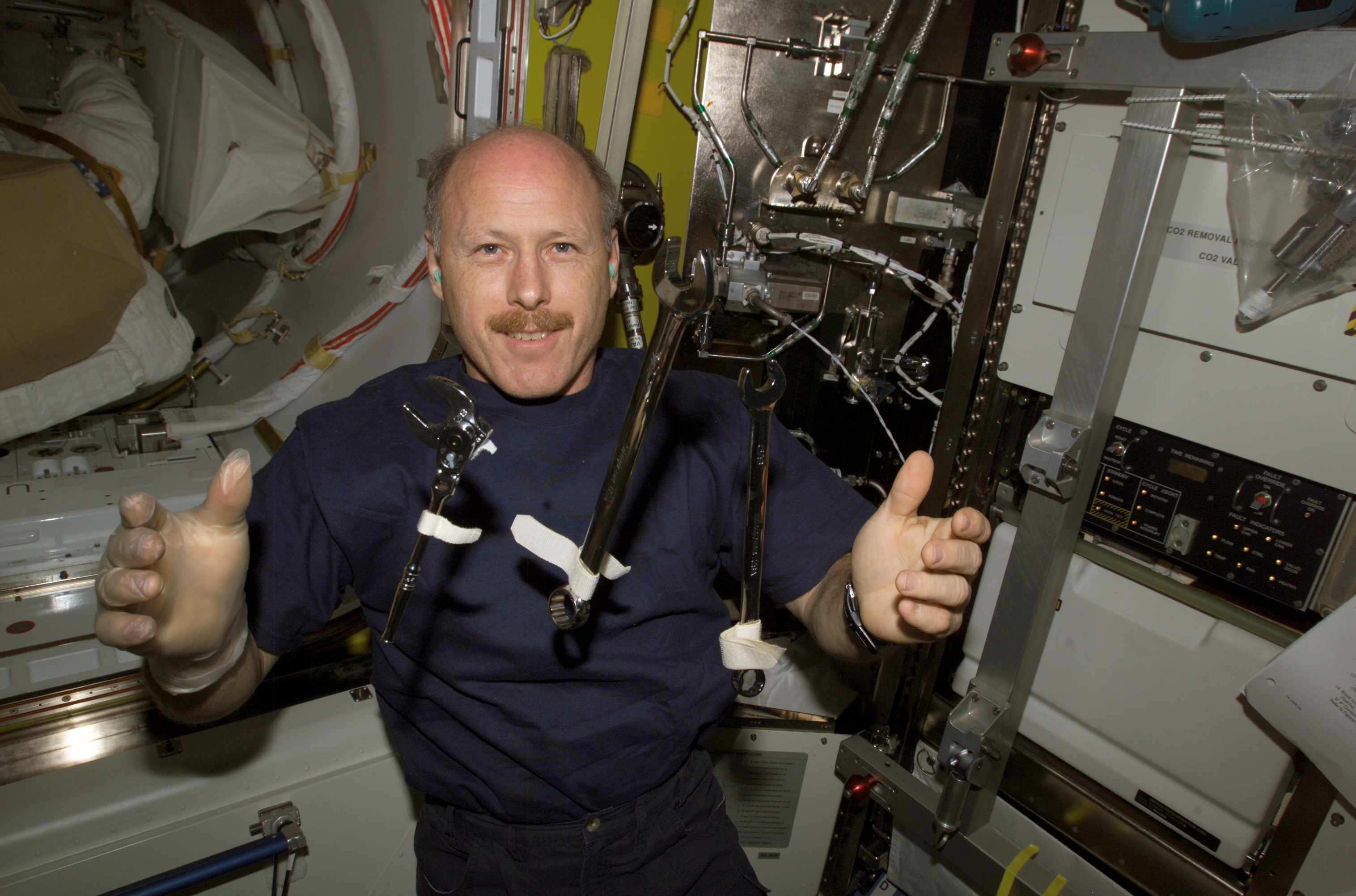 ISS006-E-18105 (18 January 2003) --- Astronaut Kenneth D. Bowersox, Expedition Six mission commander, is pictured in the Quest Airlock on the International Space Station (ISS). Various tools are visible floating freely in front of Bowersox.